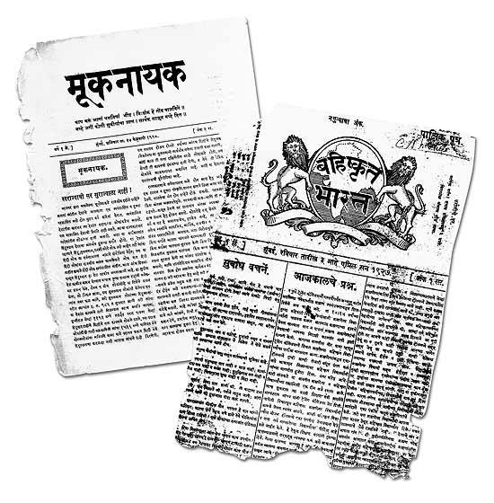 MookNayak (Mute Hero - 1920) and Bahishkrit Bharat (India Ostracised - 1927) were two Marathi journals edited by Dr. Babasaheb Ambedkar